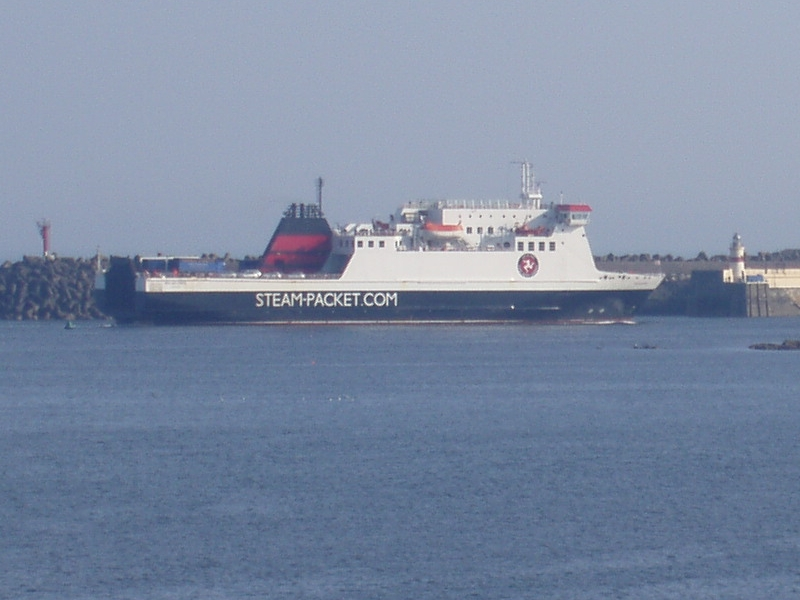 The Ben-my-Chree, a RO-PAX (roll-on/roll-off/passenger) type ferry vessel, is seen here approaching the pier at Douglas Harbor in Isle of Man. The ship was launched in 1998 at the now-defunct Van der Giessen de Noord Shipyards in the Netherlands and has been in service with the Isle of Man Steam Packet Company ever since.